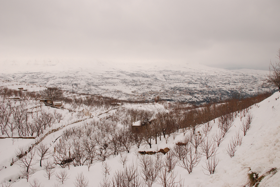 Winter